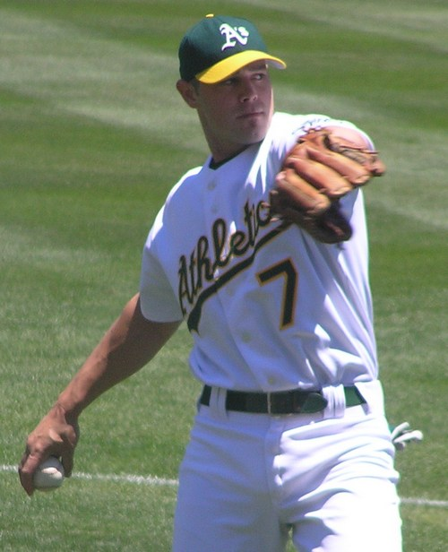 Photo by Justin Lafferty 00:22, 7 December 2006 . . Jlaff . . 500×616 (78,306 bytes)